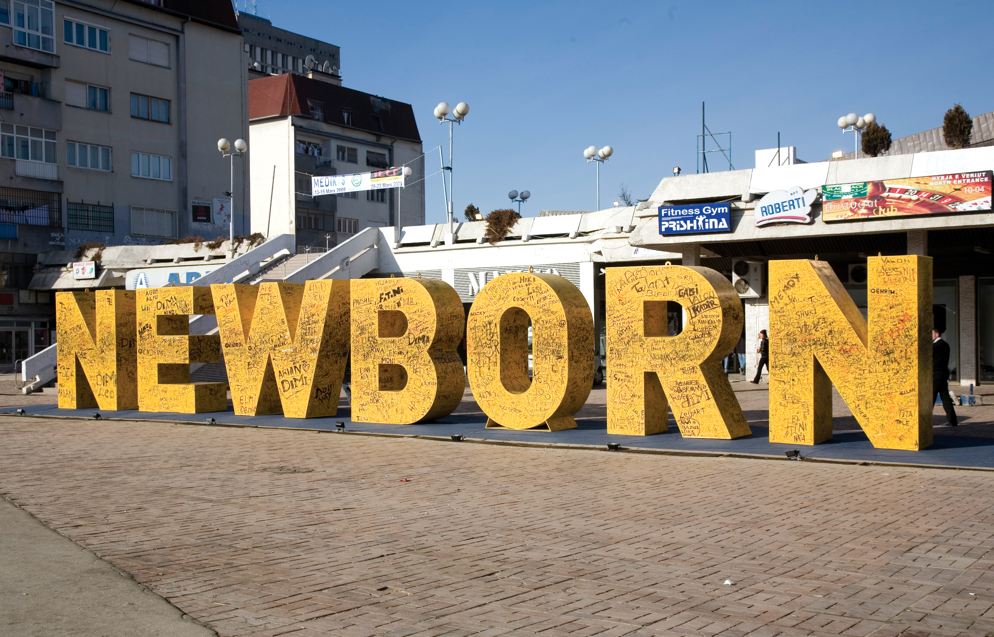 Newborn monument in Pristina, Kosovo, on the dawn of 18 February 2008.